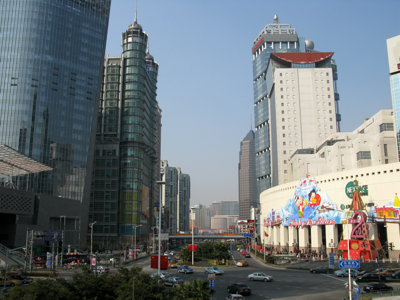 South Pudong Road, Zhang Yang Road